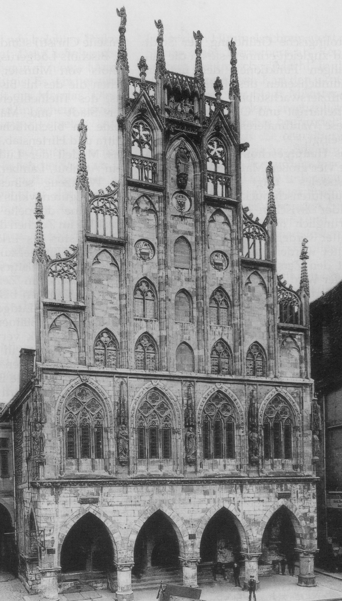 The historical city hall of Münster, Westphalia, Germany, around 1900